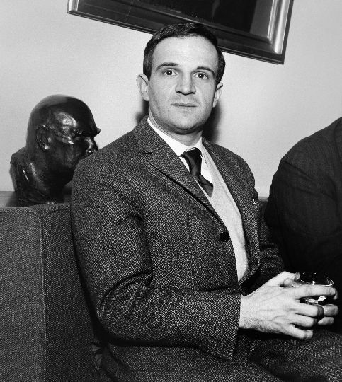 Photograph of the French filmmaker François Truffaut during his visit to Finland.